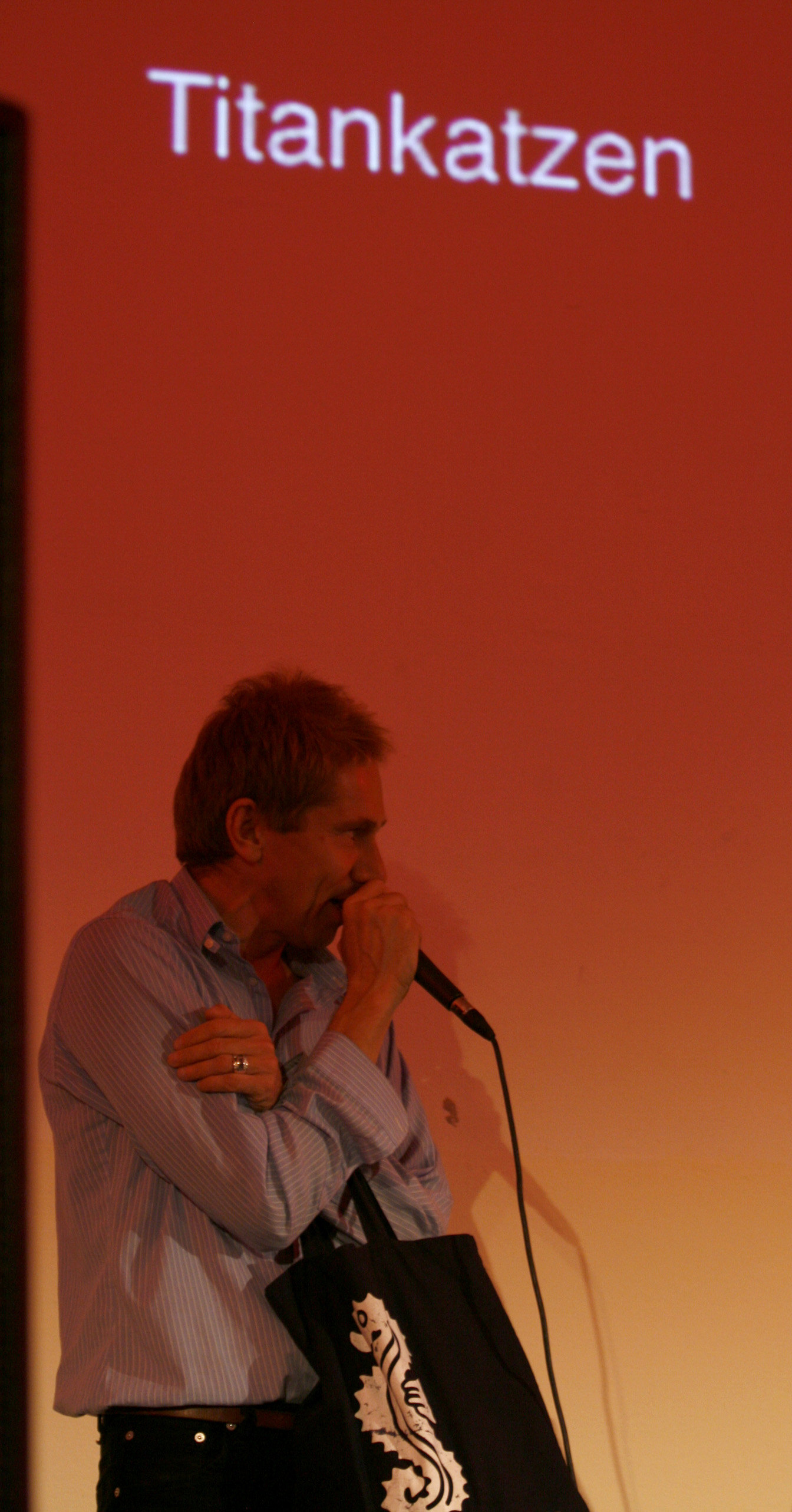 Schorsch Kamerun; concert at Museumsquartier in Vienna